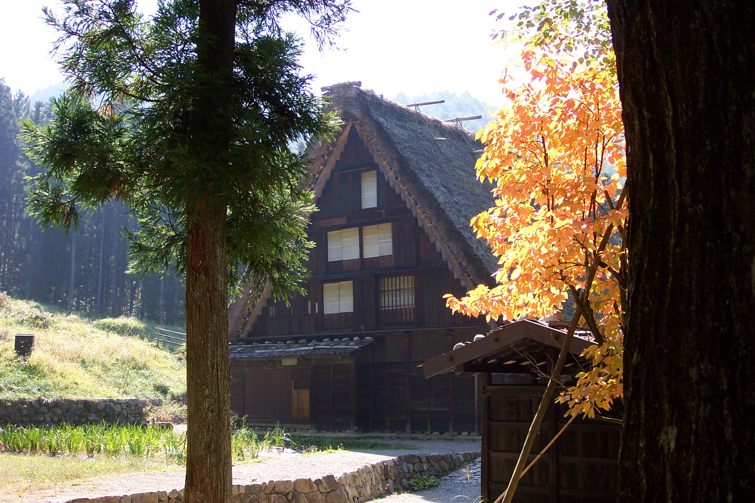 Taken October 13, 2002 in the Hida Minzoku Mura Folk Village